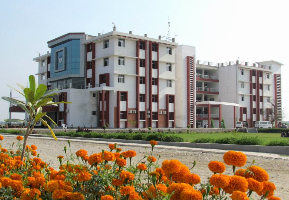 College Picture of GGI Lucknow Integrated Campus